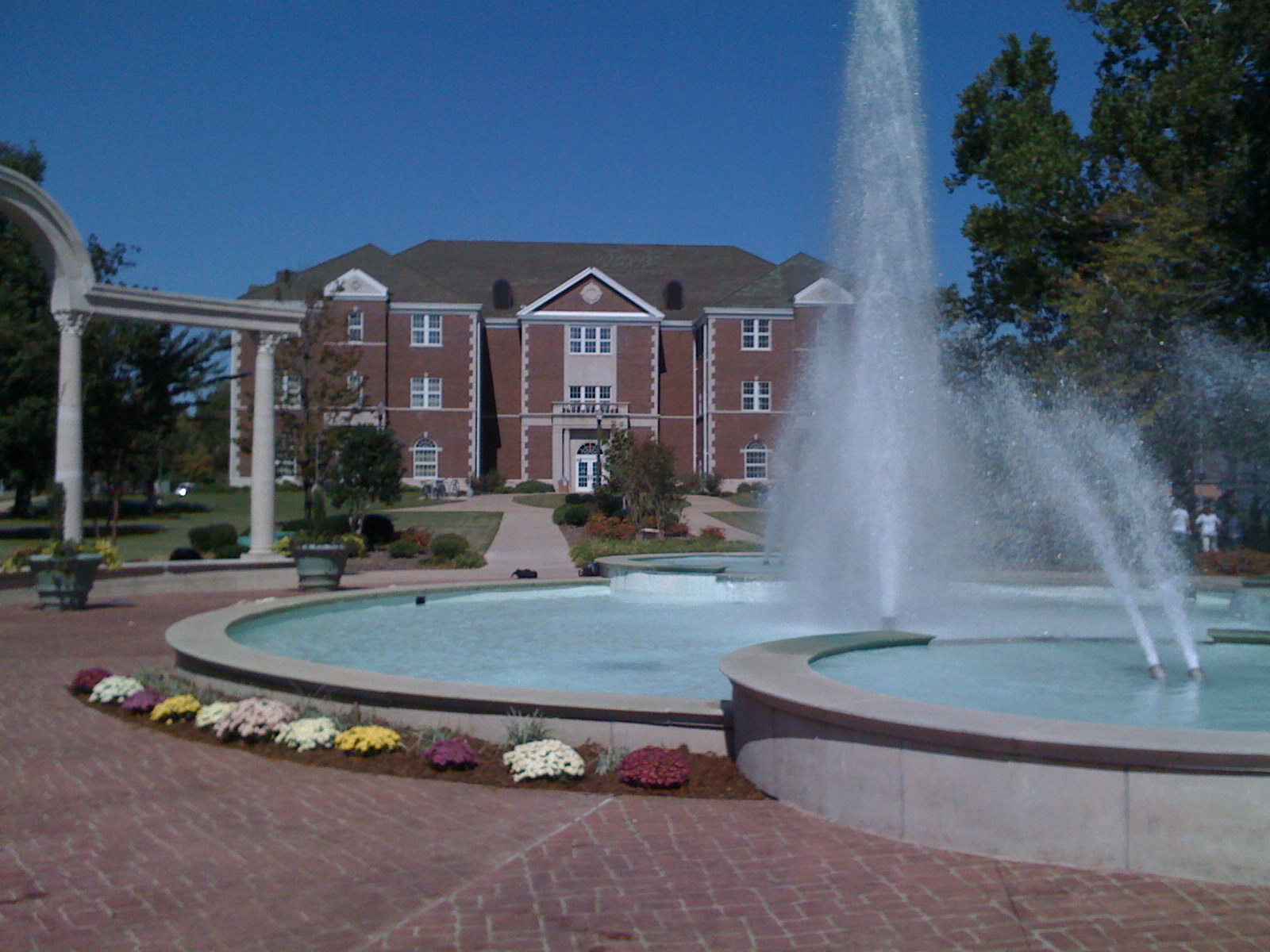 Harding Plaza looking towards Thompson Hall.